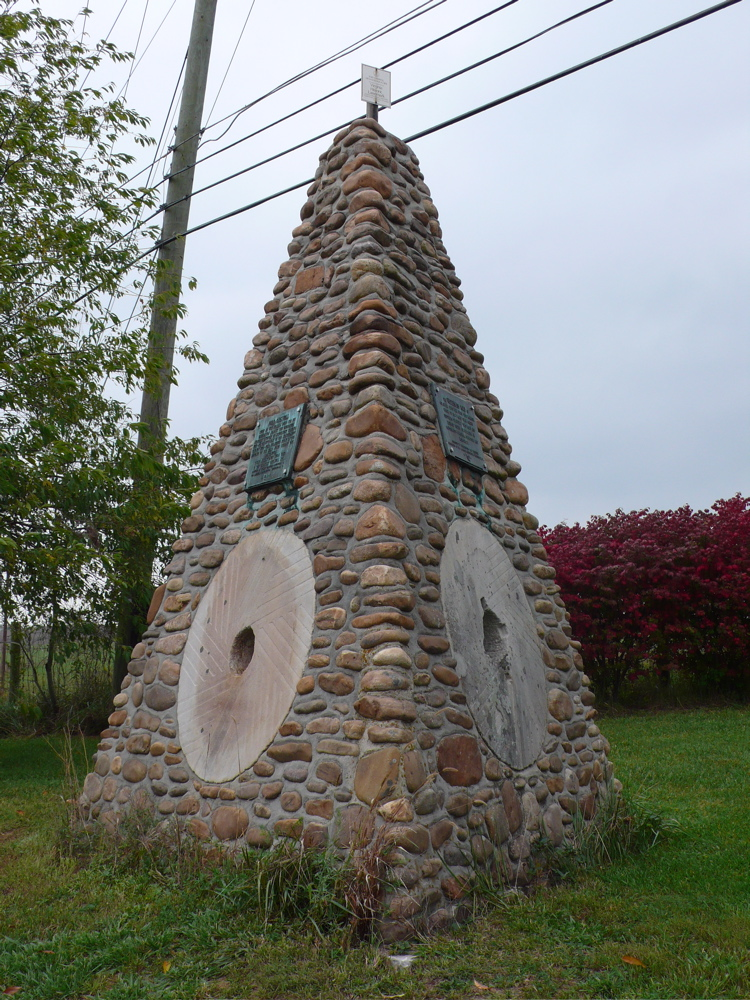 The Fort Chiswell Marker near Max Meadows, Virginia.